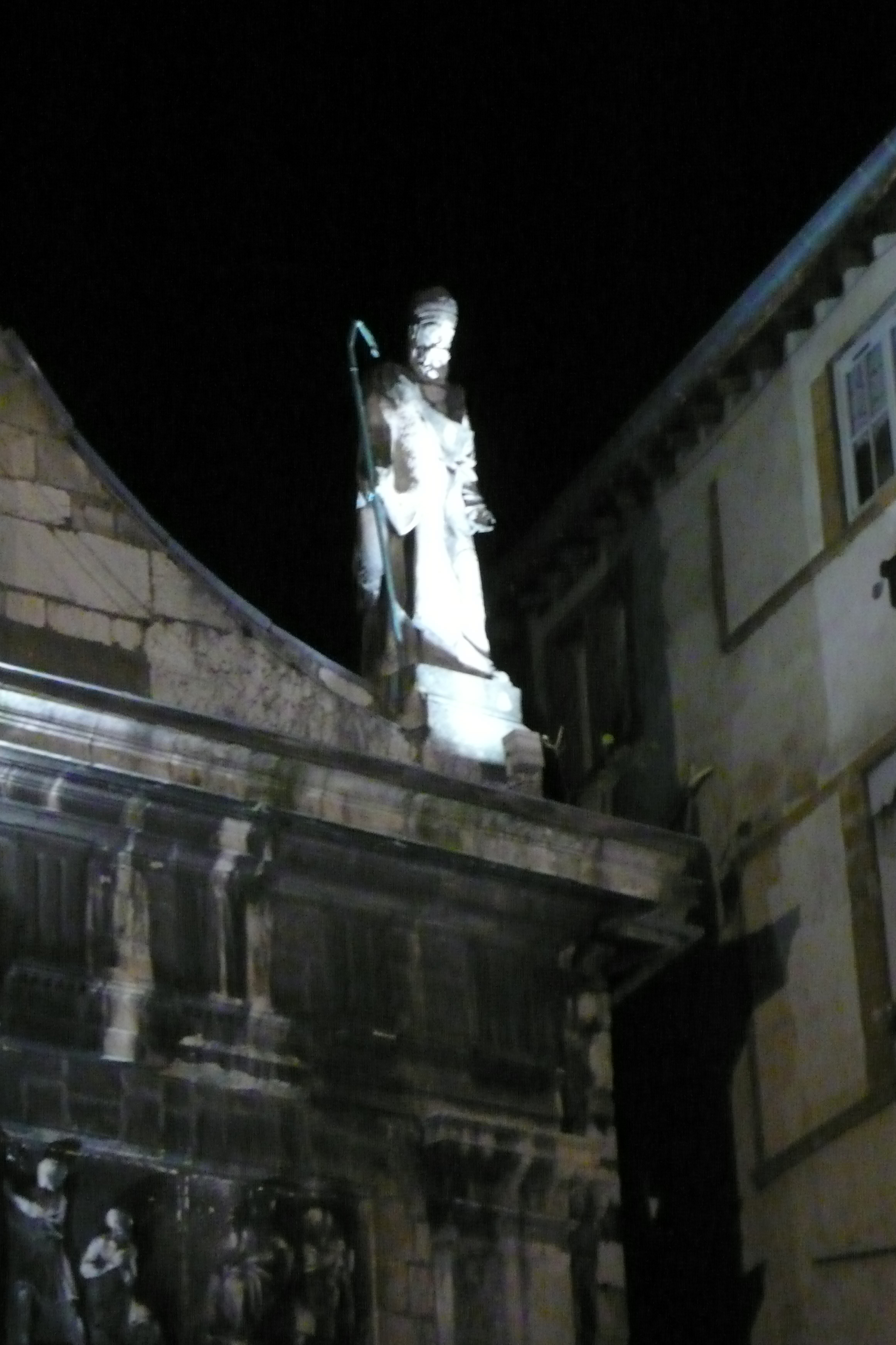 Church of Saint-Just in Lyon (rue des Farges, F-69005).